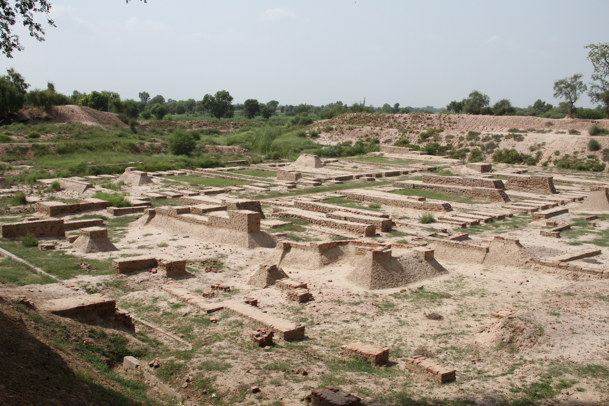 Archaeological Site of Harappa This is a photo of a monument in Pakistan identified as the PB-137